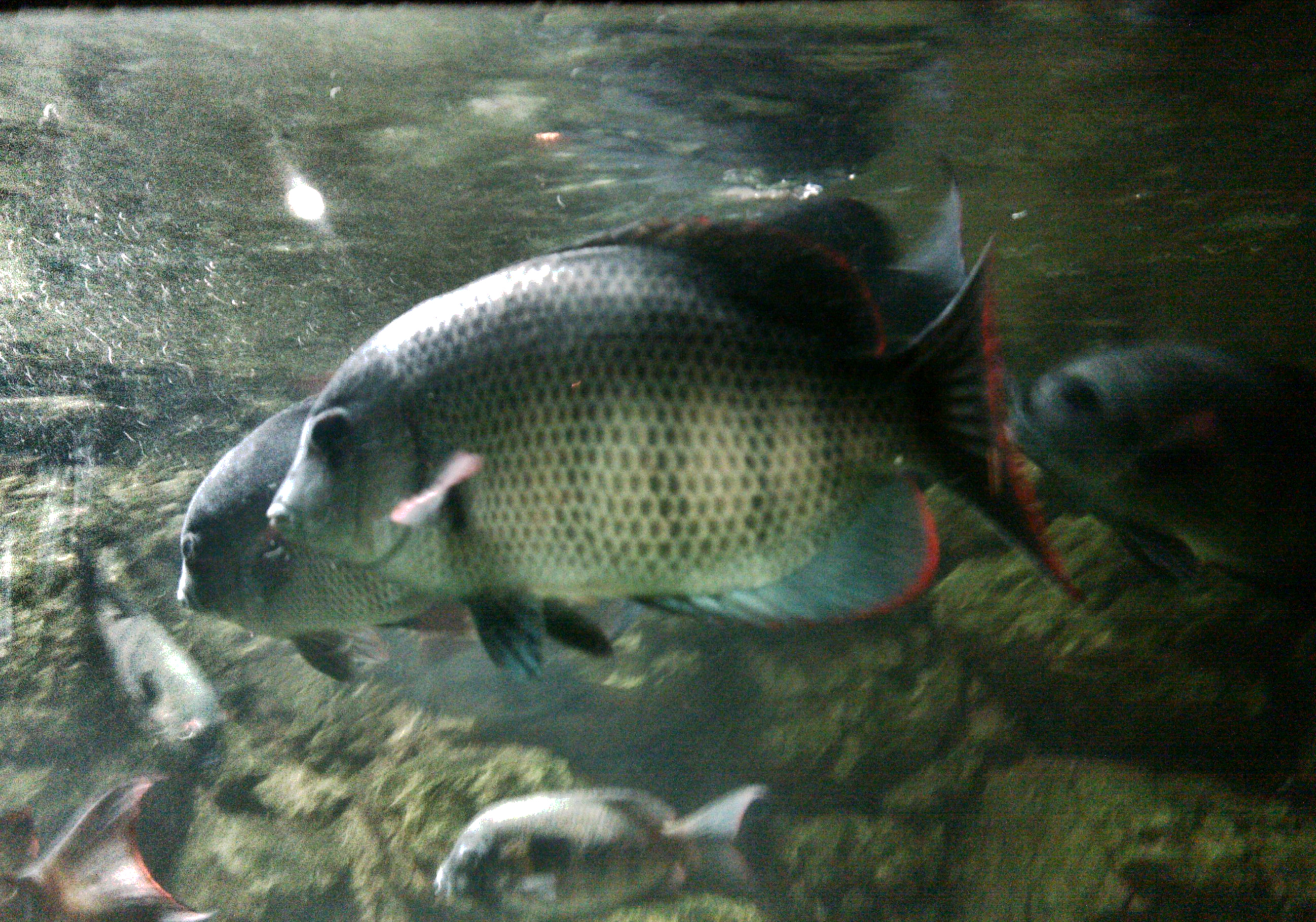 Paretroplus manerambo, or Pinstripe menarambo, used to live in Madagascar. Photo taken in the London Zoo.